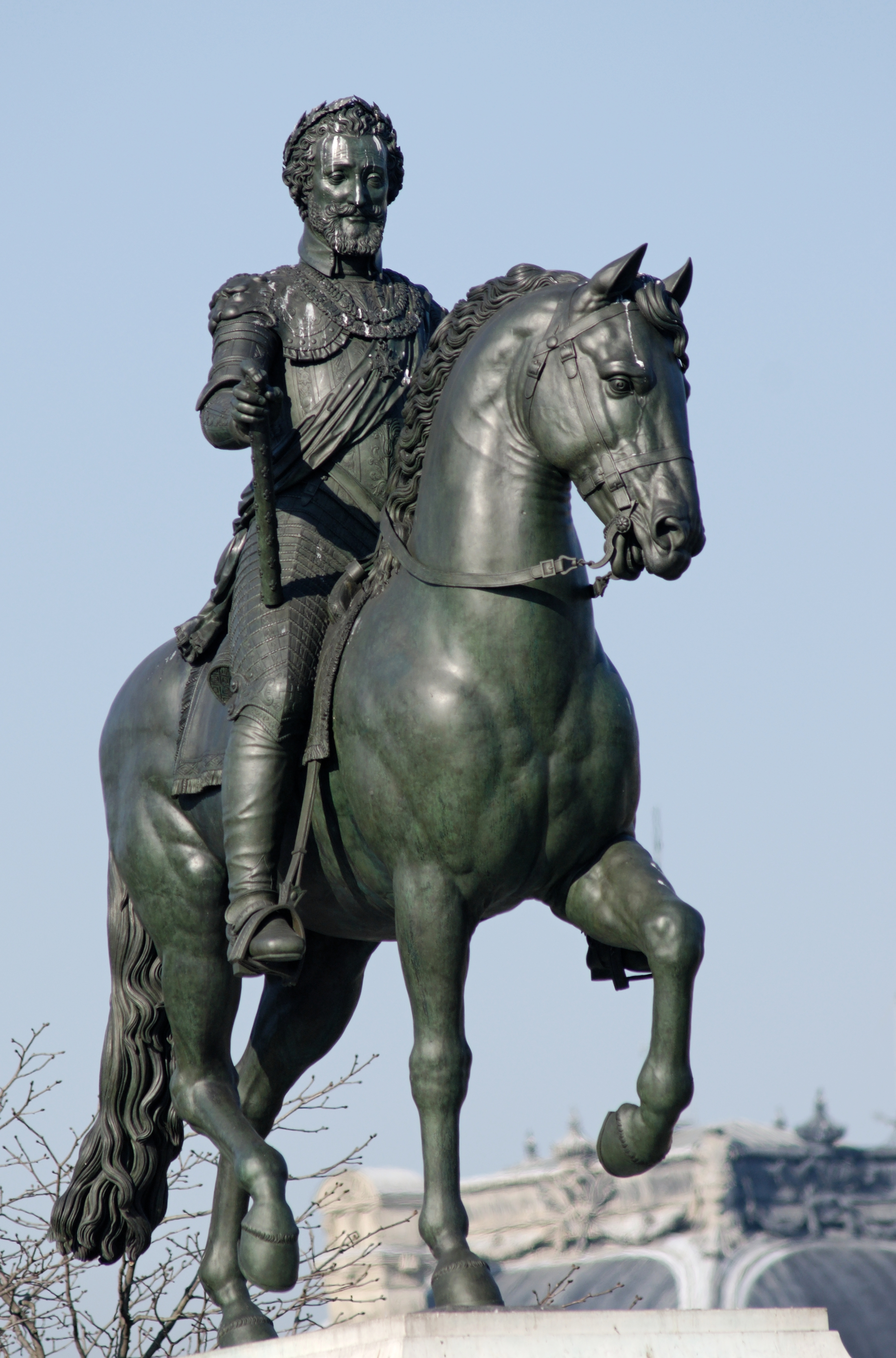 Equestrian statue of Henri IV of France, by François-Frédéric Lemot. Cast in 1818 with the bronze from several statues: Napoleon I. on top of the Colonne Vendôme, the column of Boulogne-sur-Mer and the statue of Desaix on the Place des Victoires. Pont-Neuf, Paris.